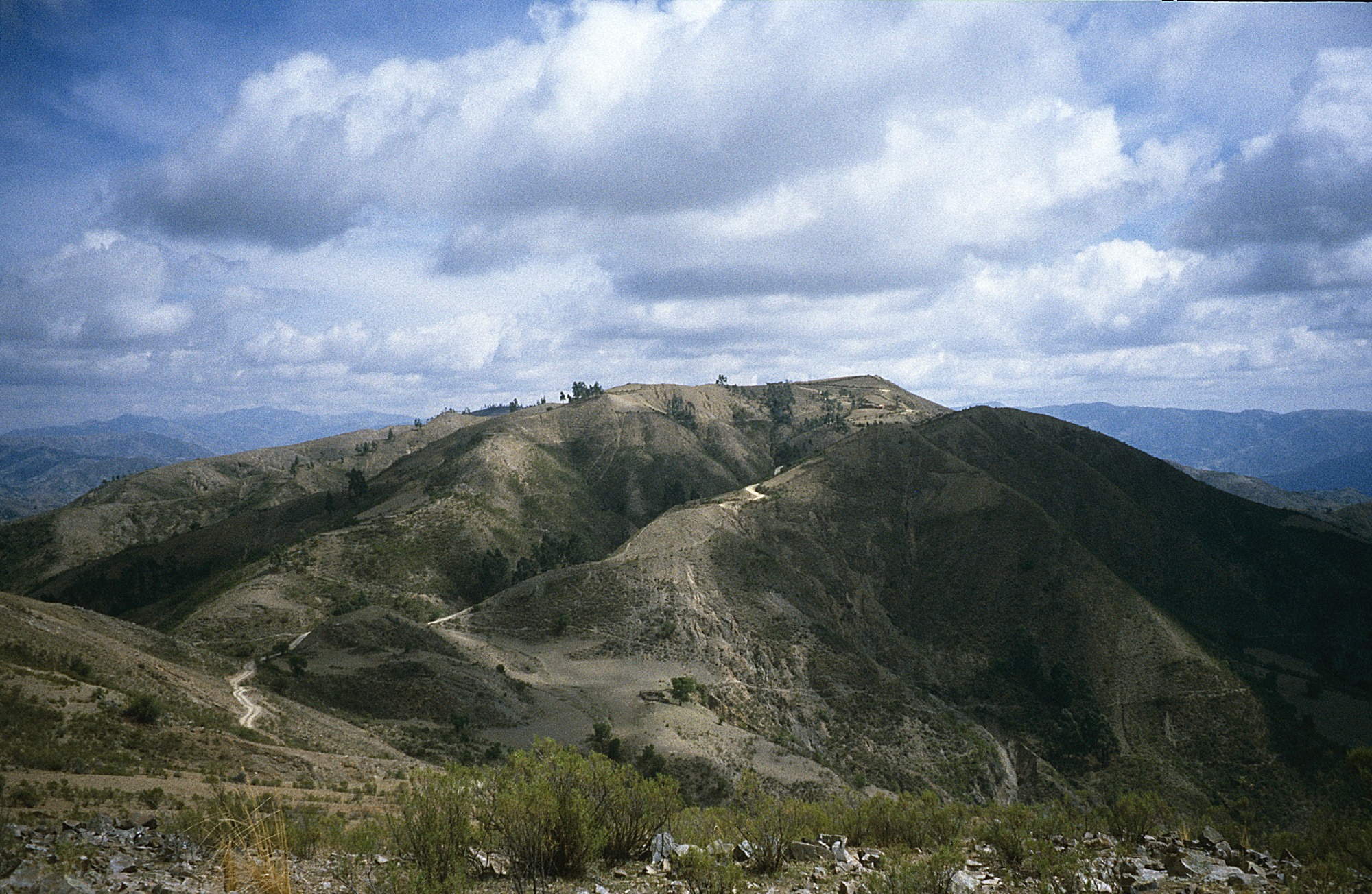 Landscape on the road from Sucre to Poroma